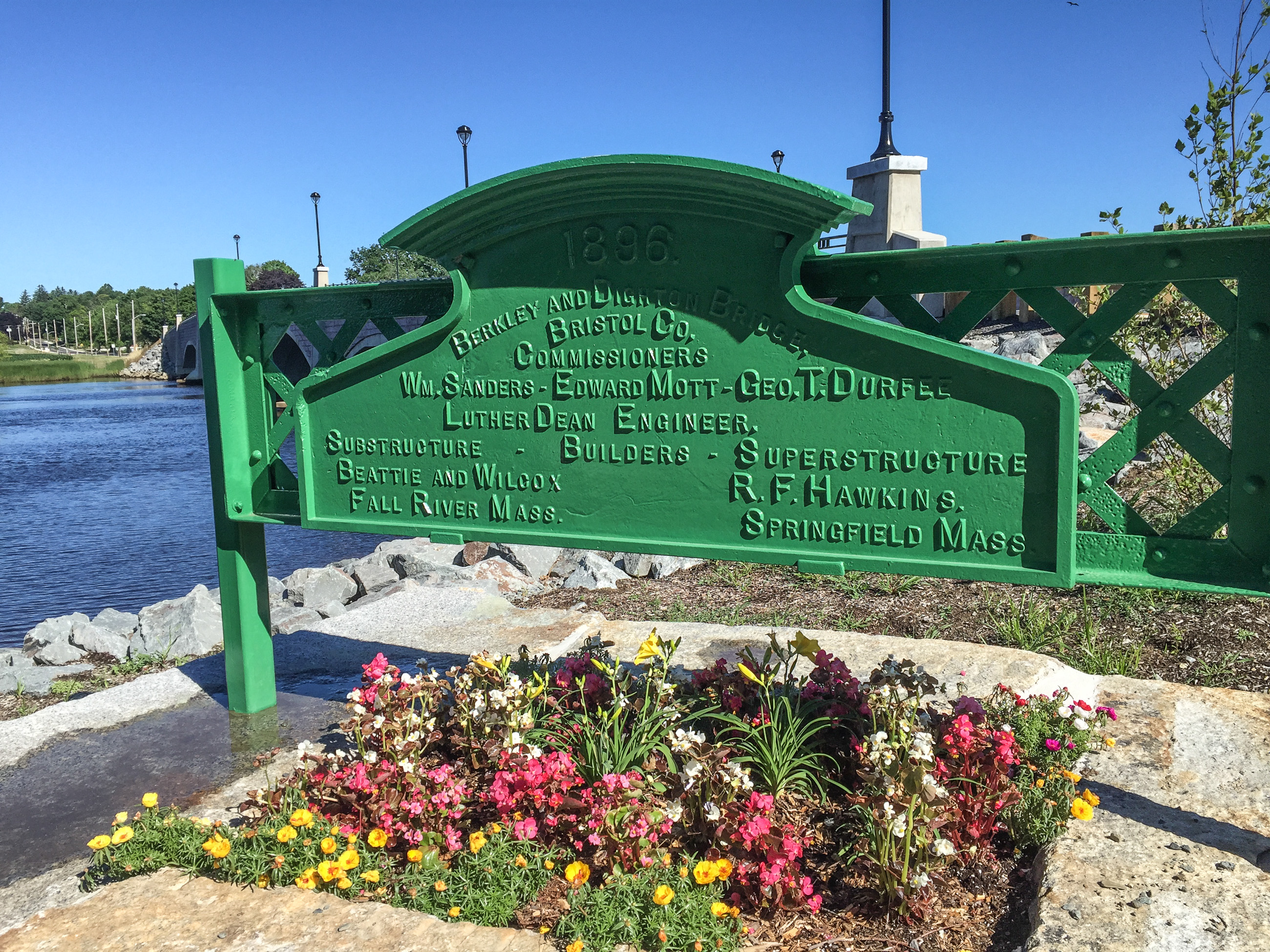 Iron sign at the Berkley-Dighton Bridge Heritage Park, Berkley Massachusetts.